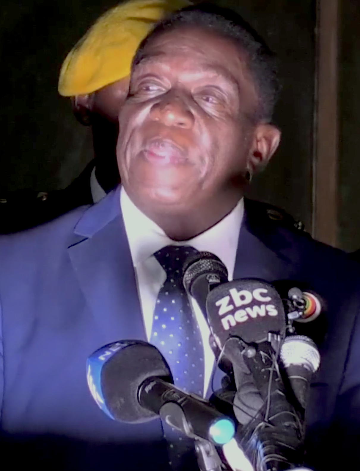 Emmerson Mnangagwa in November 2017.